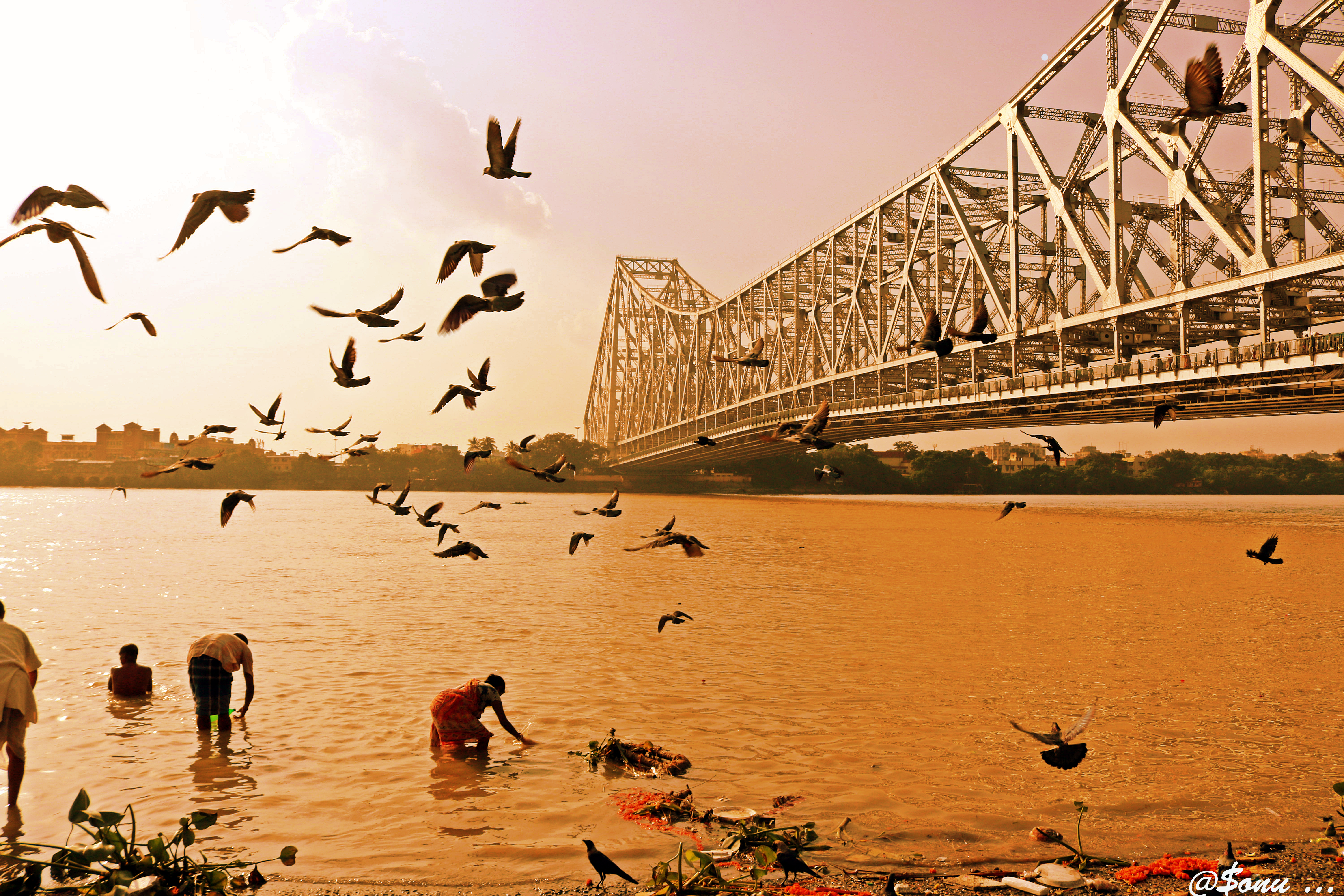 Howrah Bridge from the western bank of the Ganges